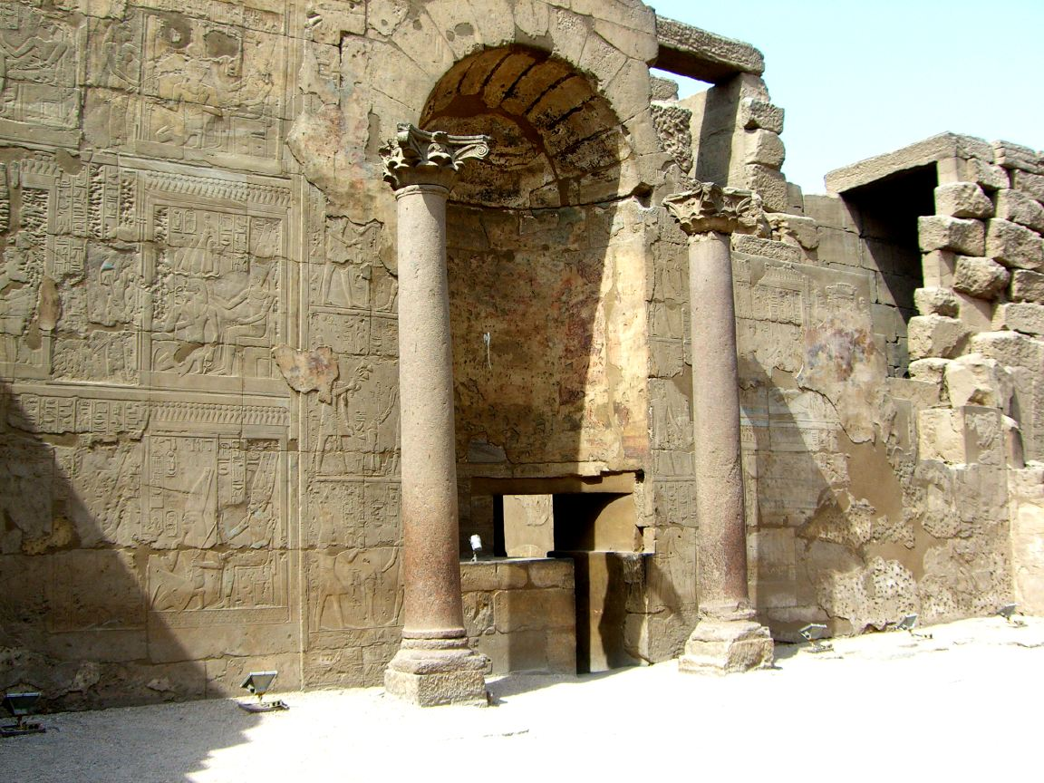 Wall of the pillared hall of the temple in Luxor turned into worship hall in the imperial Roman era with the addition of an apse, Corinthian columns and the recovery of wall coating paint.